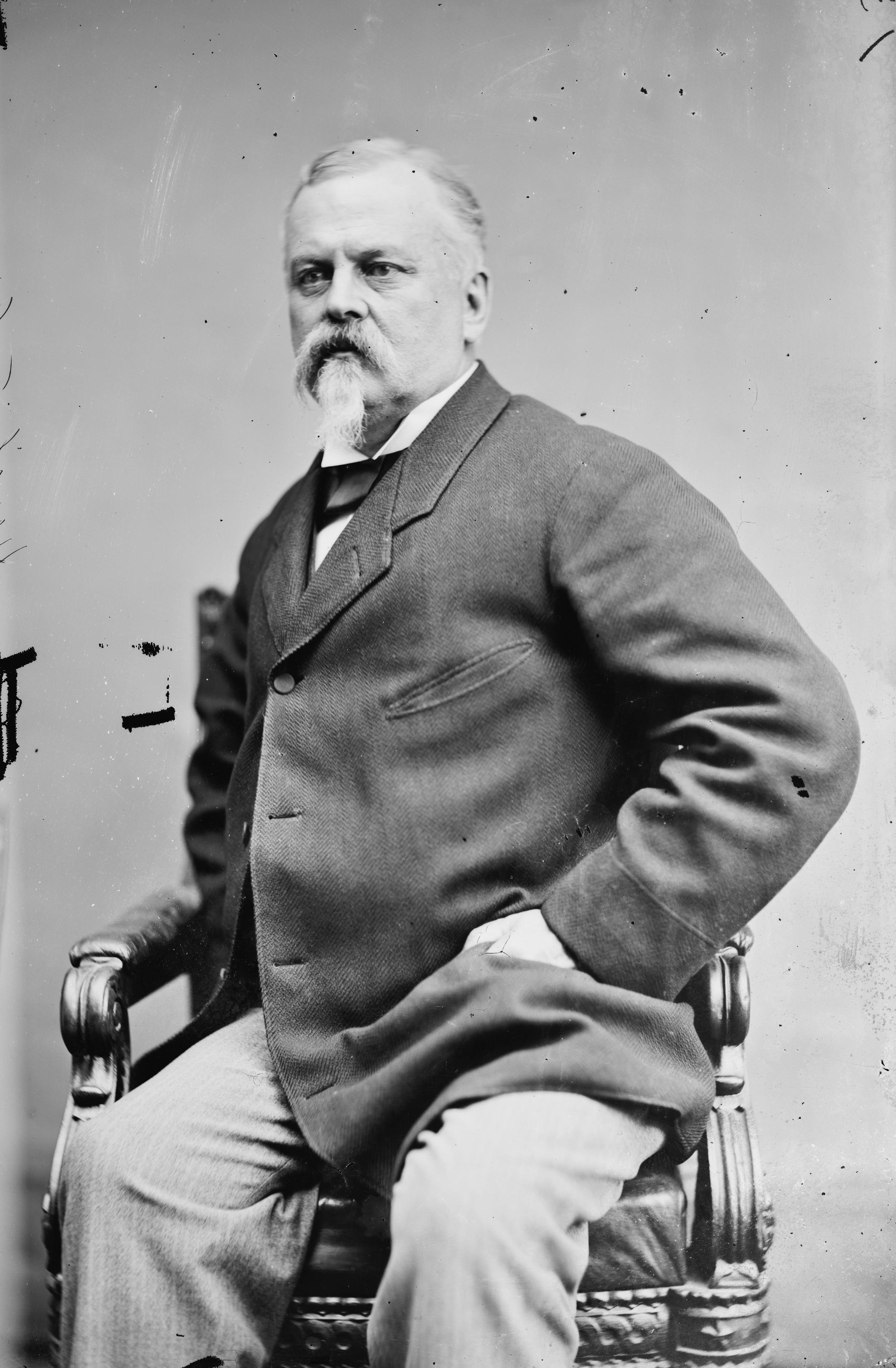 Hiester Clymer. Library of Congress description: "Clymer Hon. Hiester of PA. Rep."